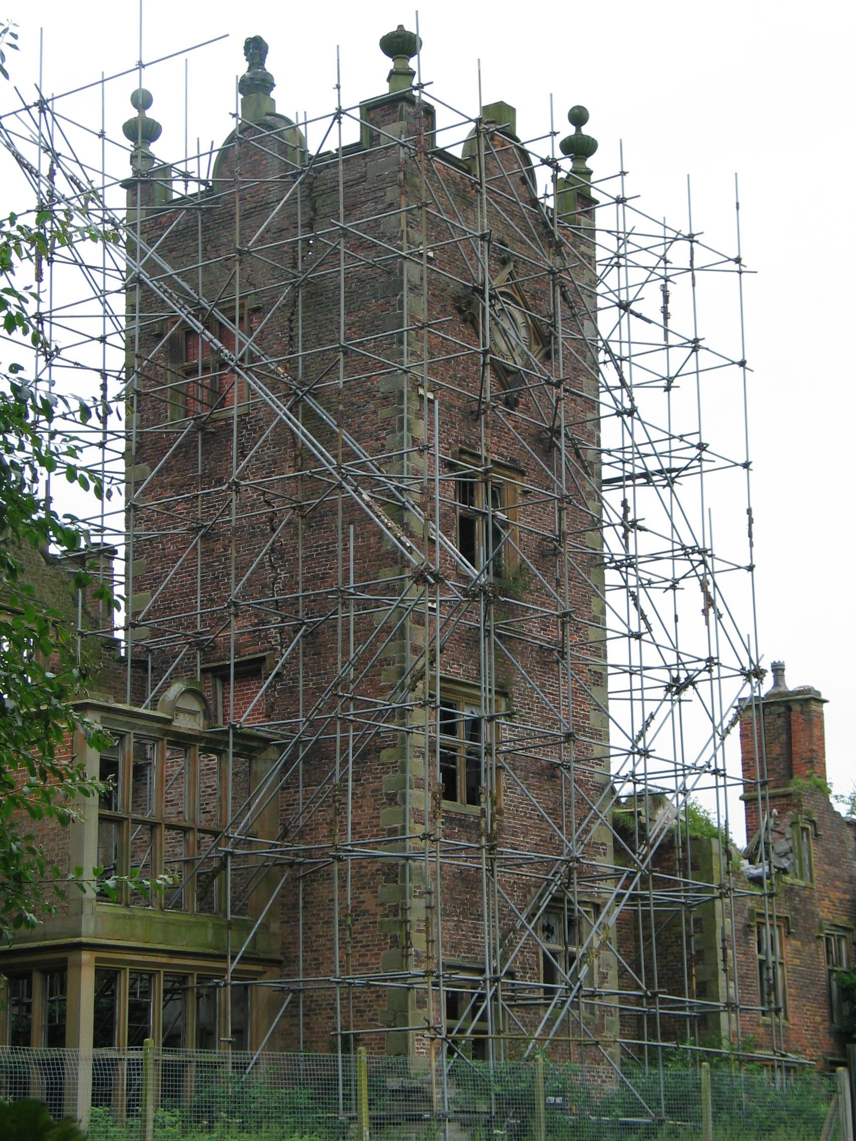 A View of the Grade II* Listed Clock Tower that contains the Oak cantilevered staircase